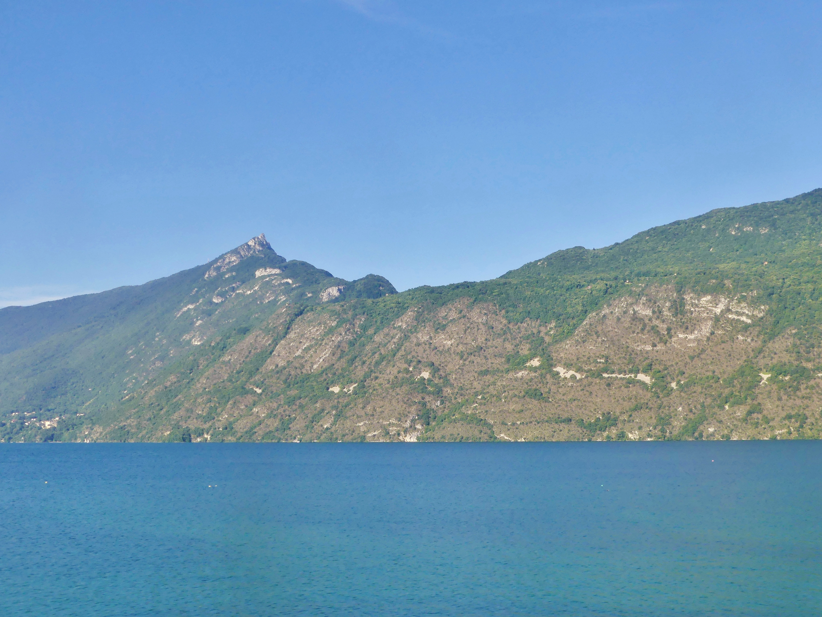 Sight of Mont de la Charvaz mount, whose colour has turned from green to brown because of Cydalima perspectalis attacking the boxwoods the year before (2016), in Savoie, France.